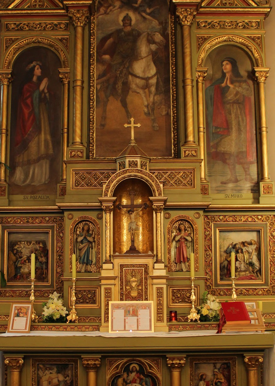 An altar prepared for Tridentine mass